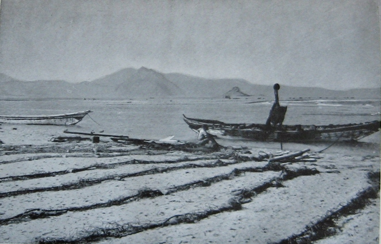 View of Khor Ghorera (Yemen) in January 1914. Also known as the lagoon, or lake, of Sheikh Said, it is a long and narrow shallow lagoon on the western side of the Bab el-Mandeb (or Sheikh Said) Peninsula facing the island of Perim. Fish was very abundant and nearly all of the estimated 250 inhabitants of Sheikh Said at the time were fishermen and their families living in thatched huts disseminated along the shore of Khor Ghorera. Several huts are visible across the lake. A small Turkish garrison occupied Fort Turba at the top of a promontory nearby. The fort was shelled and captured by troops from British India in November 1914.